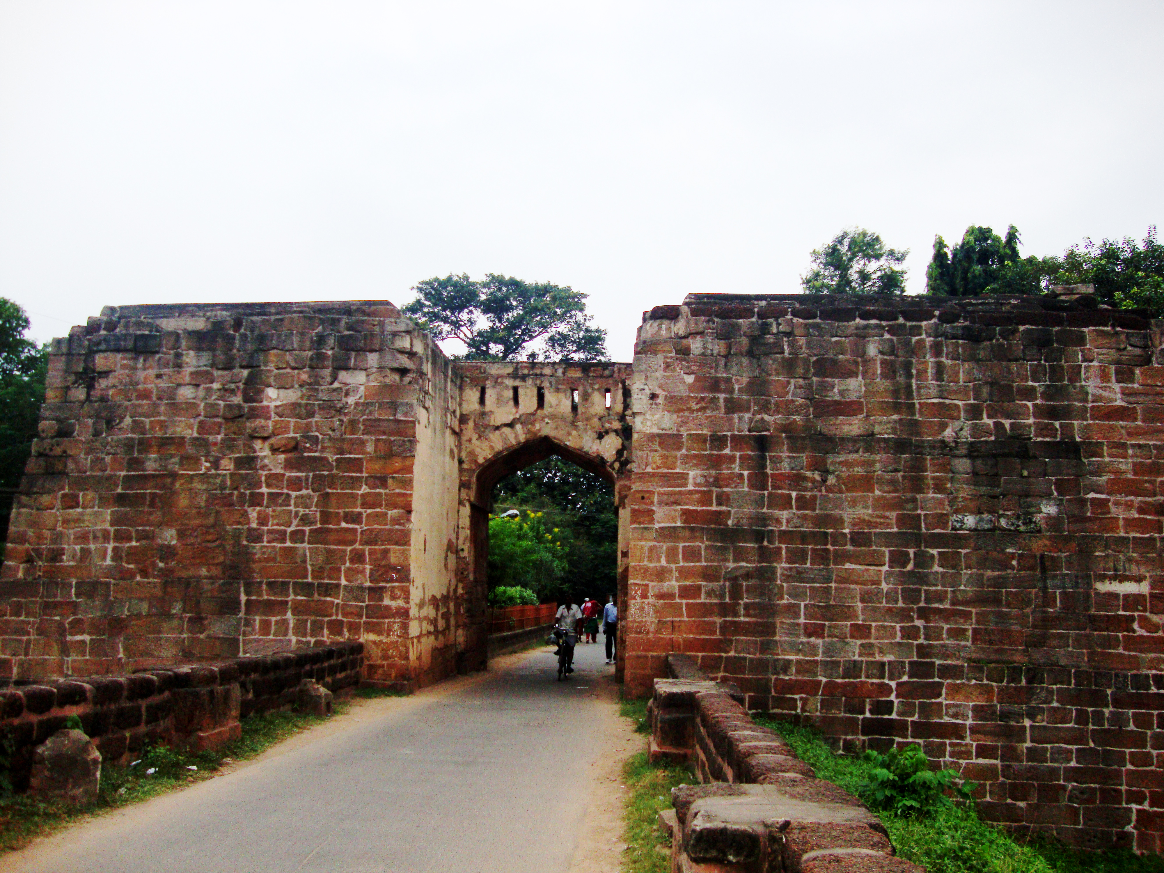 barabati fort at cuttackଓଡ଼ିଆ: ବାରବାଟି ଦୁର୍ଗ